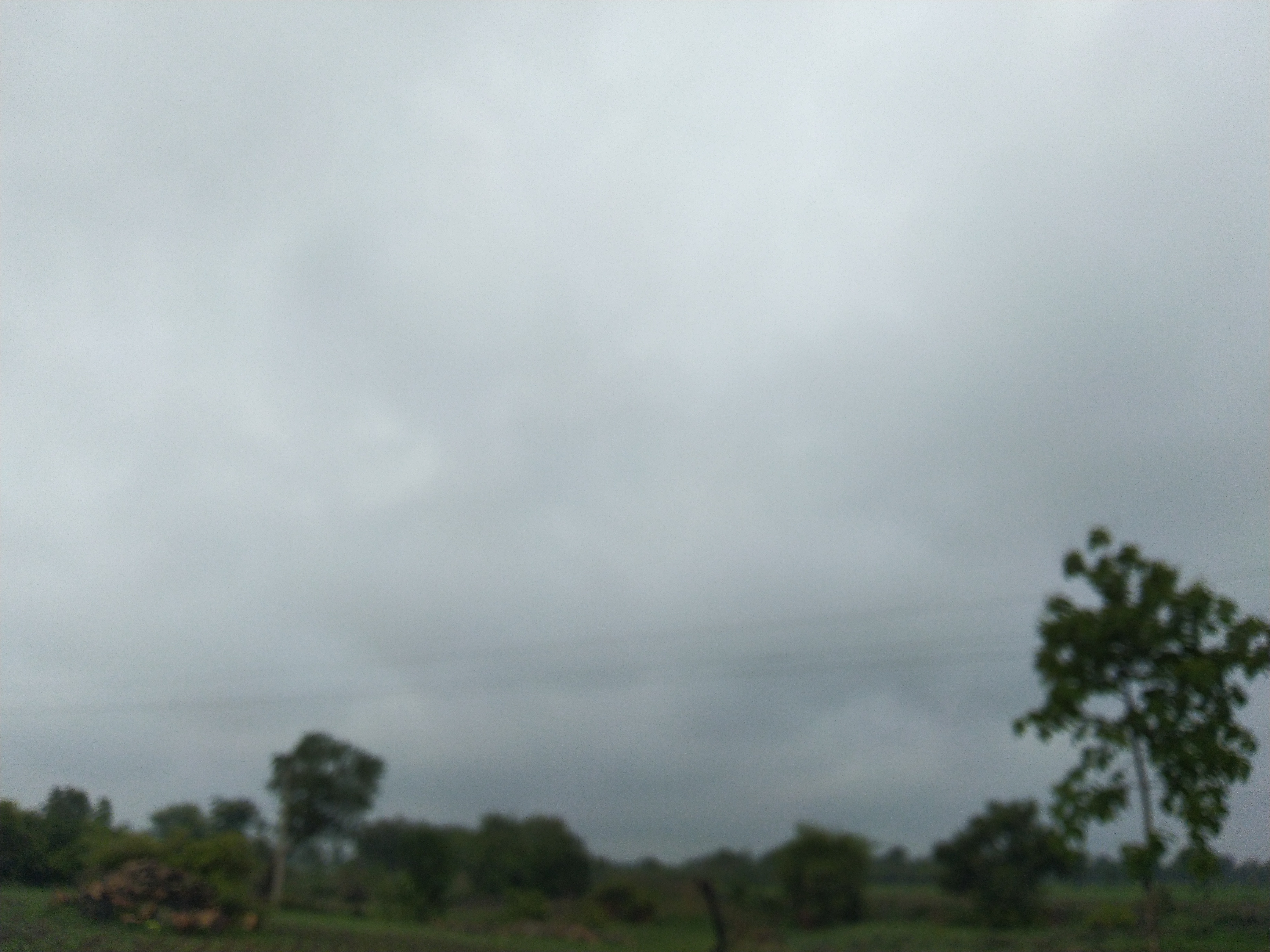 Dense black clouds over Jamthi Kh. village, tq. & dist. Hingoli, Maharashtra on the Deccan Plateau, India.